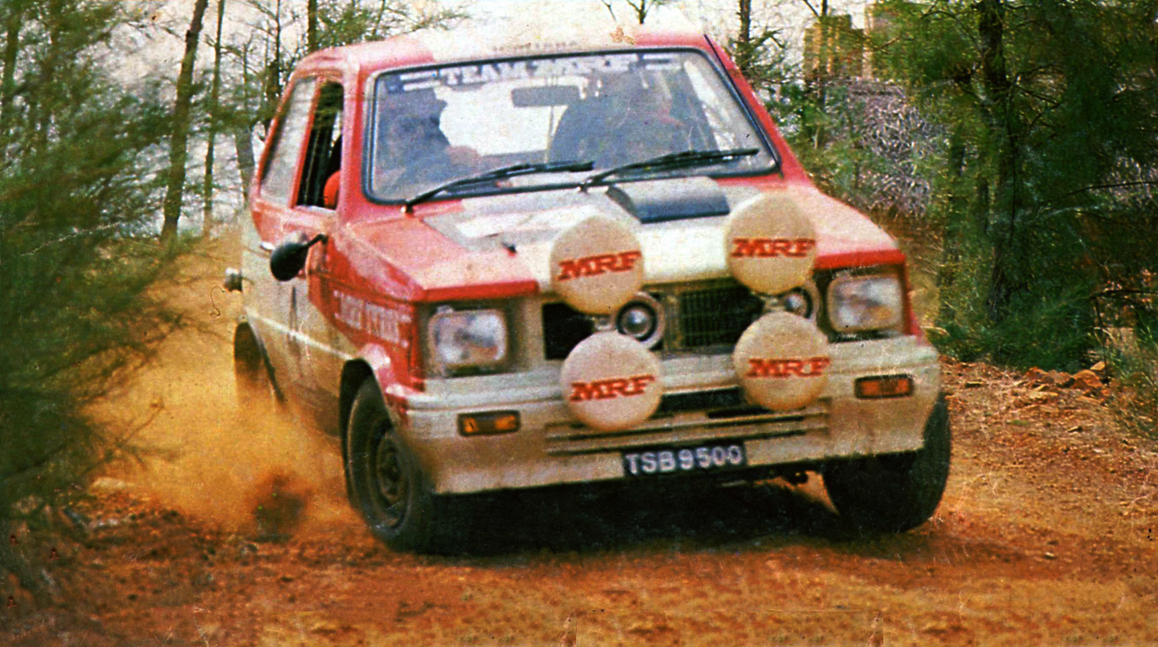 Vicky Chandok and co-driver Manoj Dalal in a MRF sponsored Sipani Dolphin in 1987 South India Rally.